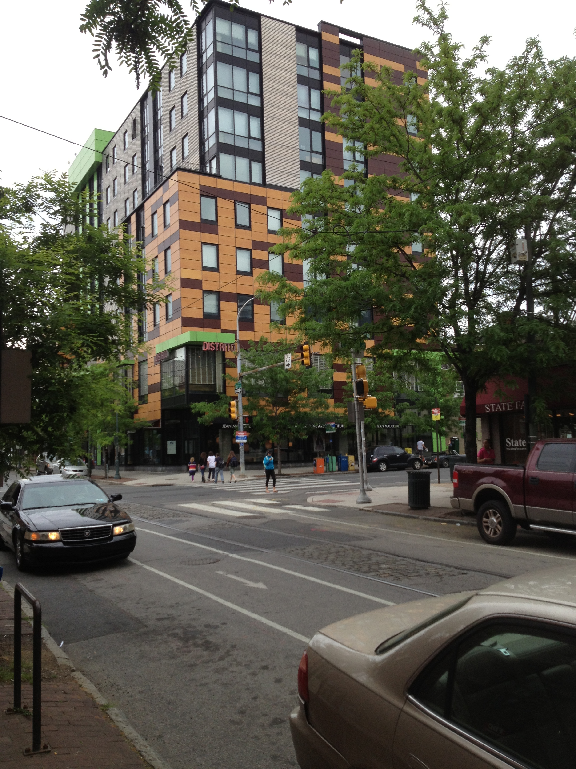 Photo of buildings on the corner of 40th St. and Chestnut in University City, Philadelphia, Pennsylvania.